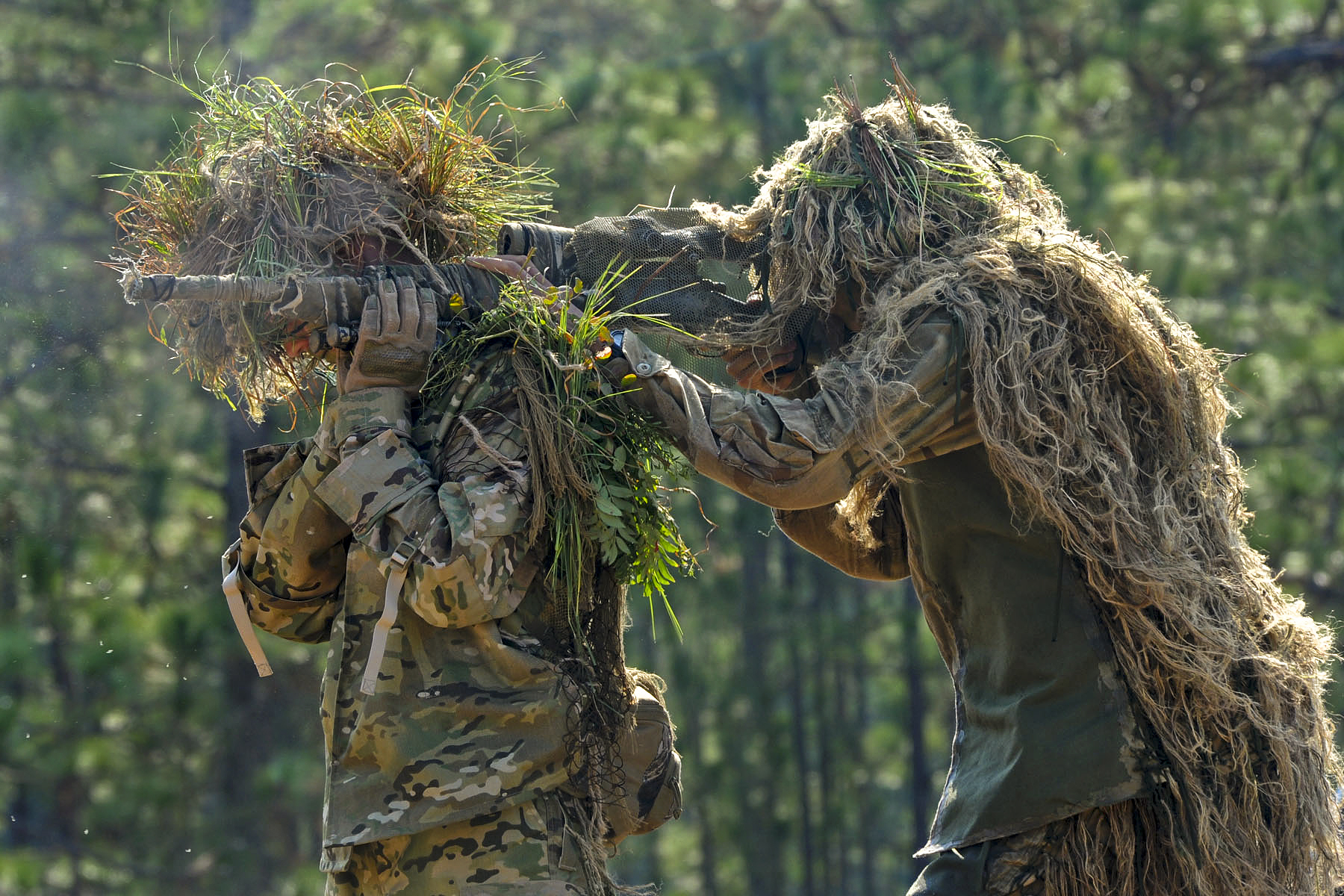 Two U.S. Army snipers wearing ghillie suits combine to form an over-the-shoulder firing position during competitive shooting at the 10th Annual International Sniper Competition on Fort Benning, Ga., Oct. 14, 2010.